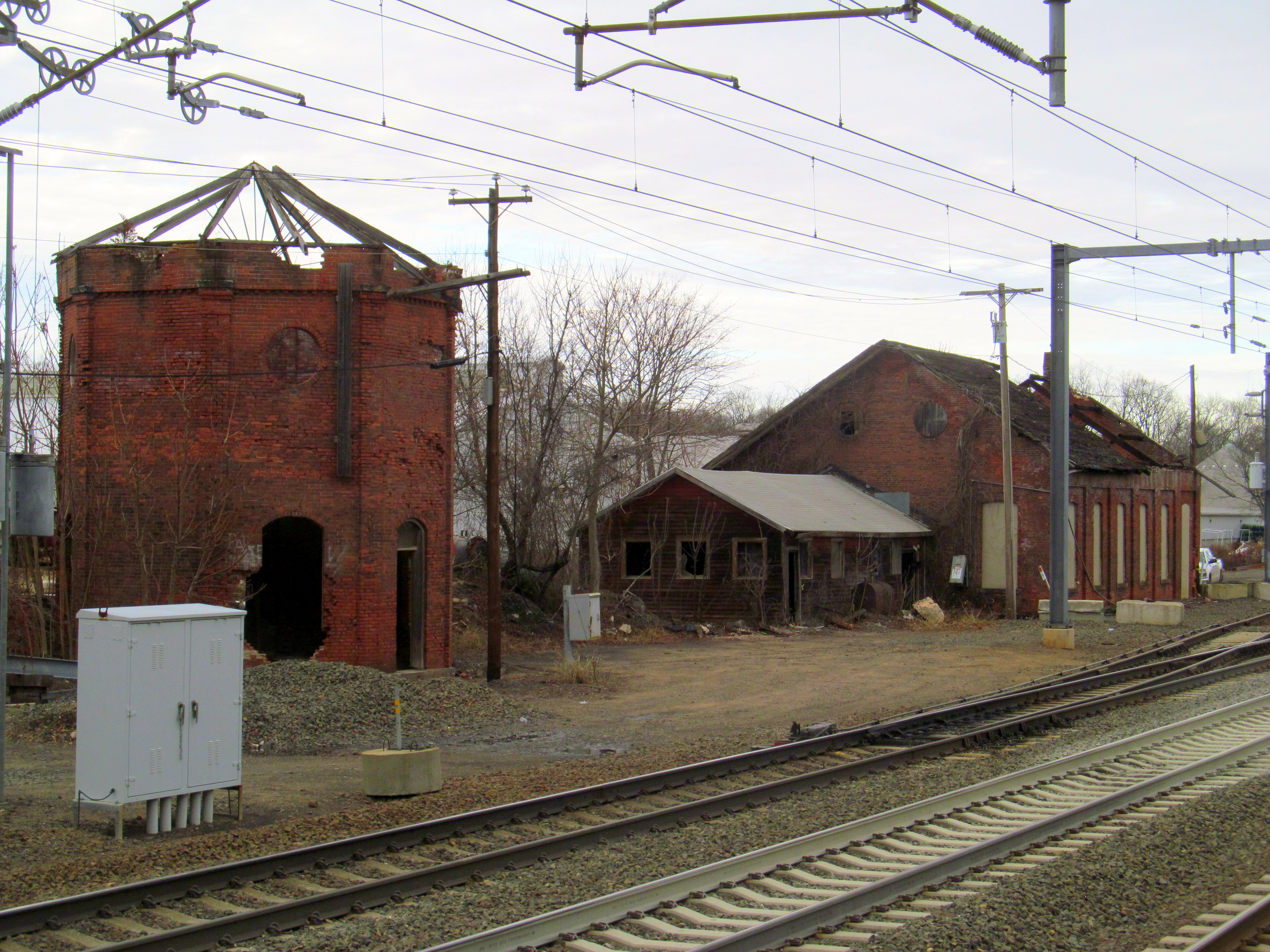 The mid-1870s engine house and water tower at Guilford station in December 2015